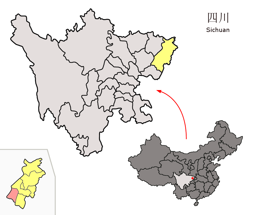 Location of Qu County (pink) and Dazhou Prefecture (yellow) within Sichuan province of China Map drawn in october 2007 using various sources, mainly : Sichuan province administrative regions GIS data: 1:1M, County level, 1990 Sichuan Counties map from